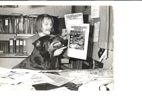 Uno at work with his dog Alli at Interpresse!